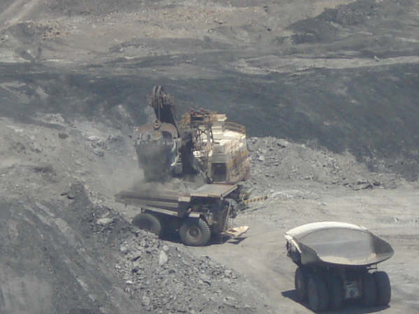 Image of trucks loading coal. Cerrejon Coal Mines, La Guajira, Colombia. December 2005.